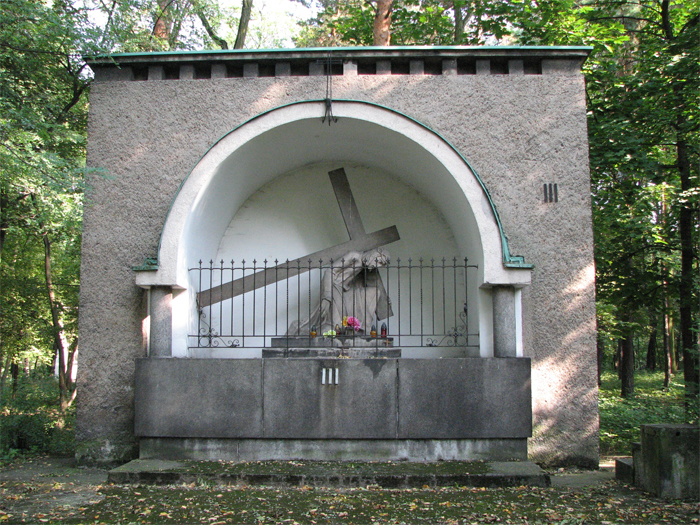 Calvary in Katowice Panewniki, Stations of the Cross - "Jesus falls the first time". Completed in 1947.